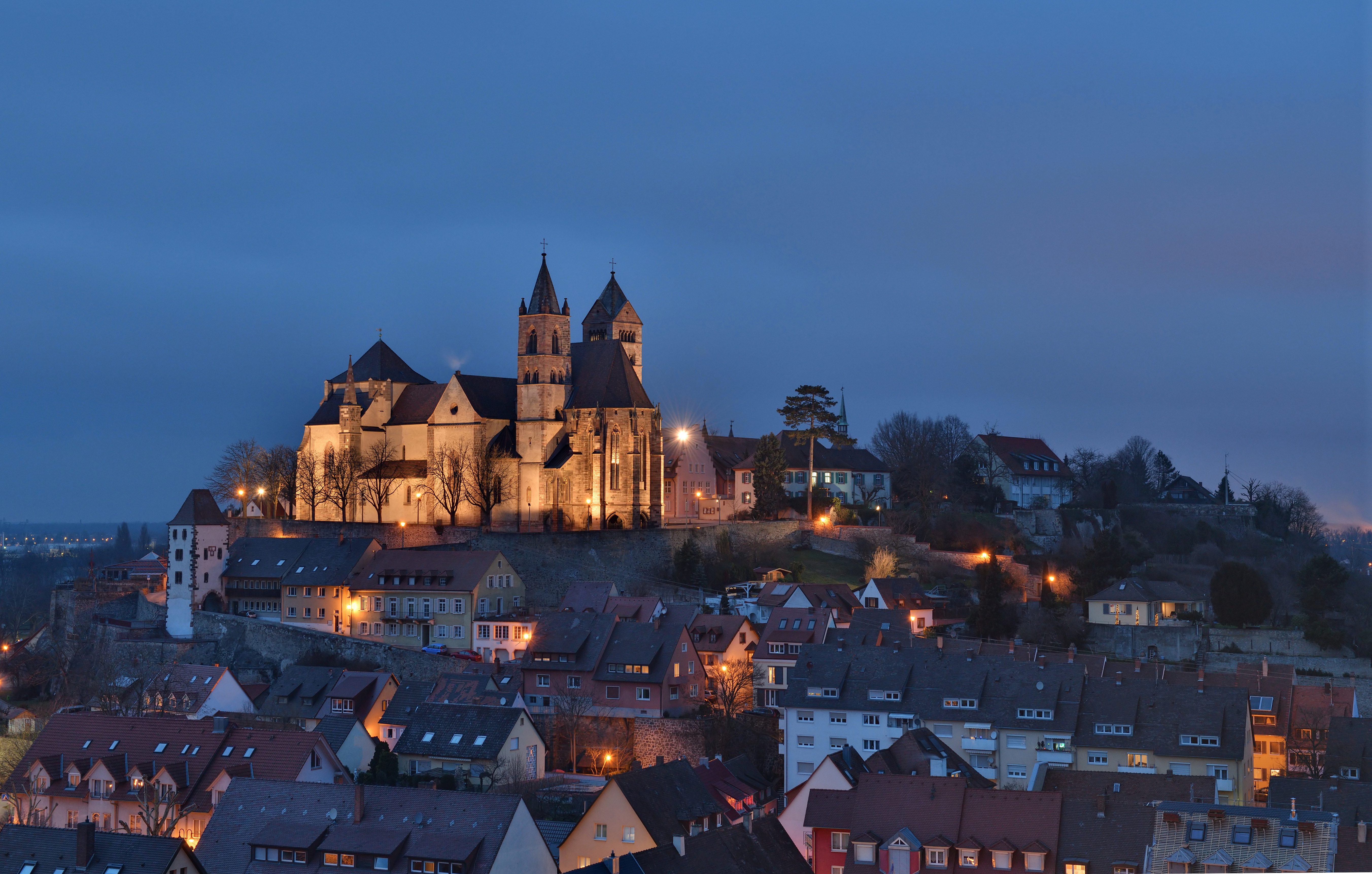 Breisacher Münster at blue hour